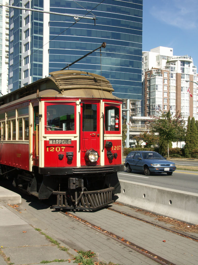 This tram was originally built in en:1905 and operated primarily on the "interurban" tram line from Vancouver to Richmond, BC. It was one of the last cars still operating when the tram line was shut down in en:1958. After many years of storage it was restored and is currently being used on the Vancouver Downtown Historic Railway. See the City of Vancouver webpage on this car for more information.